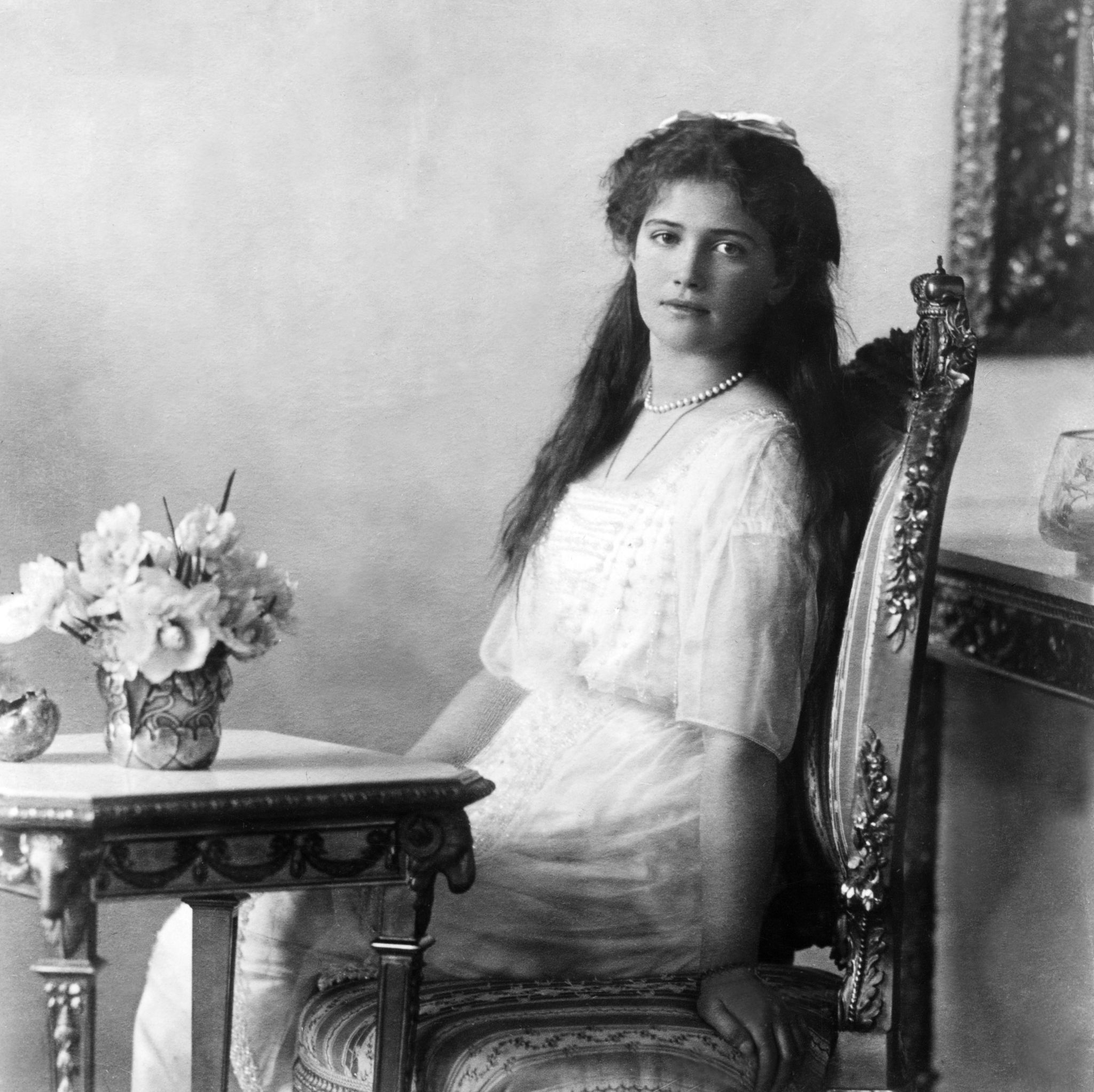 This formal portrait of Grand Duchess Maria Nikolaevna of Russia in 1914 was featured on post cards during World War I. Due to its age I believe it's in the public domain.